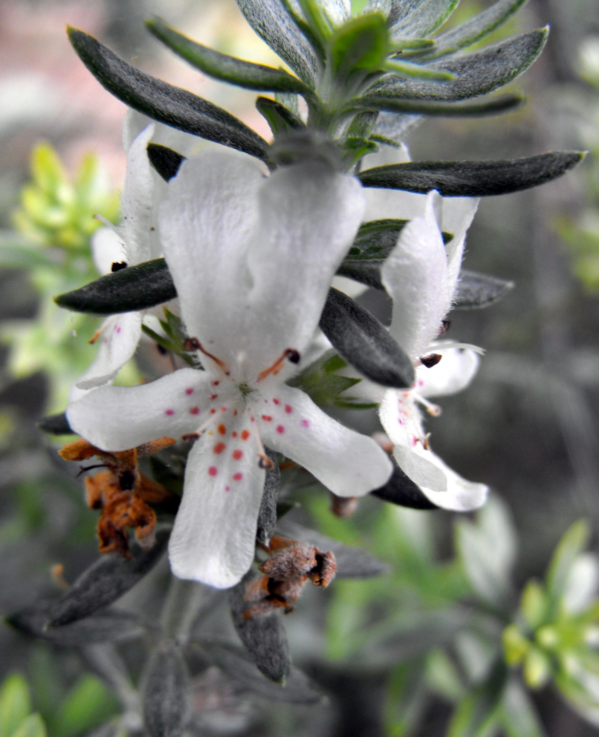 Westringia fruticosa at Quail Botanical Gardens in Encinitas, California, USA. Identified by sign.